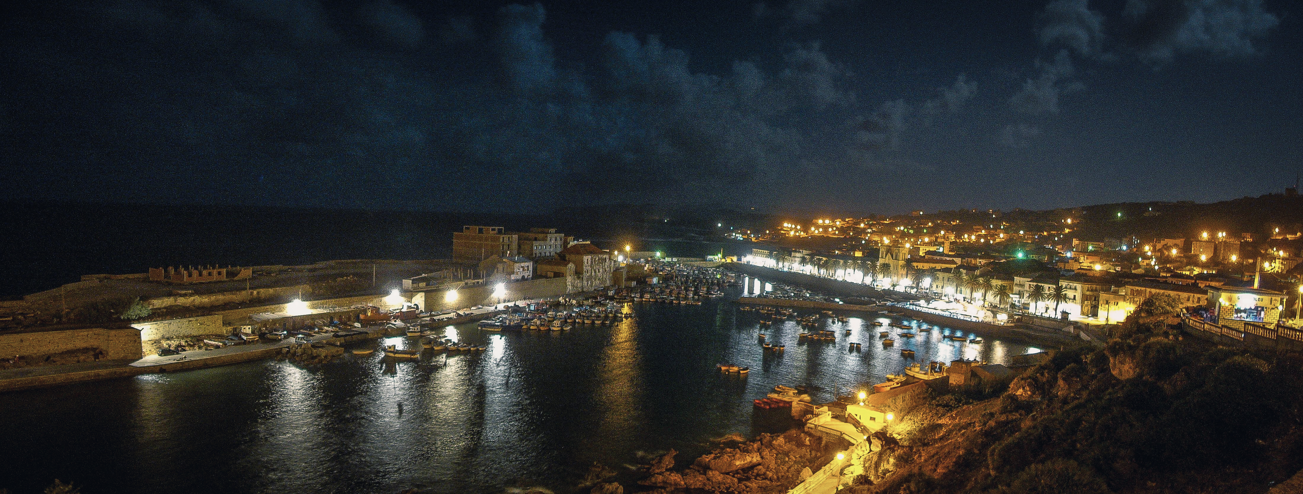 le port de le kala de nuit